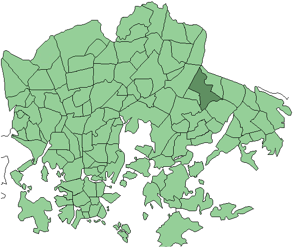 Districts of Helsinki, Kontula district highlighted (in Finnish: Kontulan peruspiiri korostettuna)